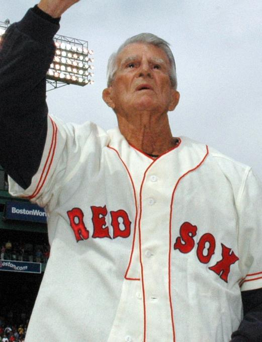 Johnny Pesky at a recent Red Sox ceremony.